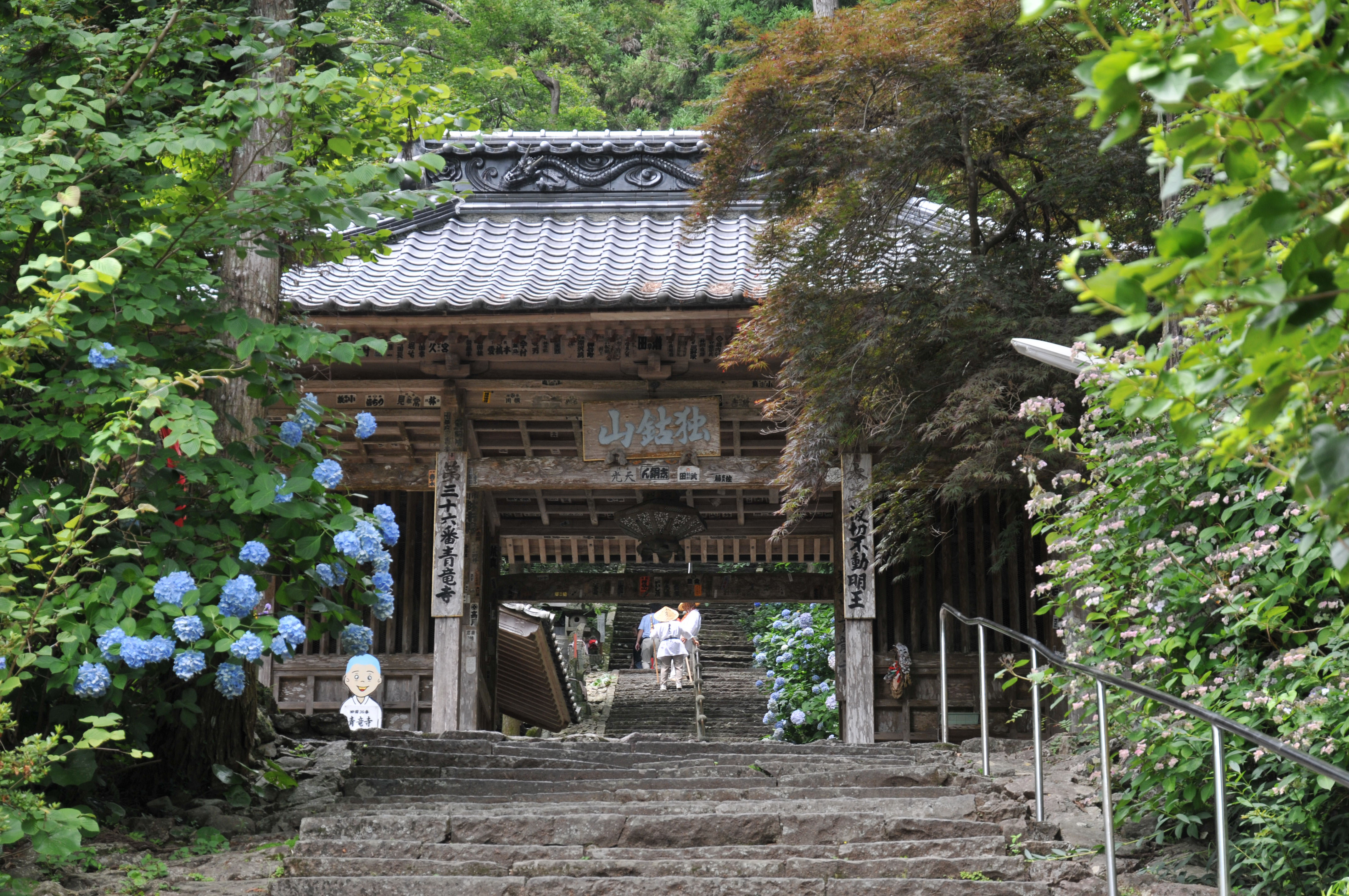 Temple gate, Shōryū-ji